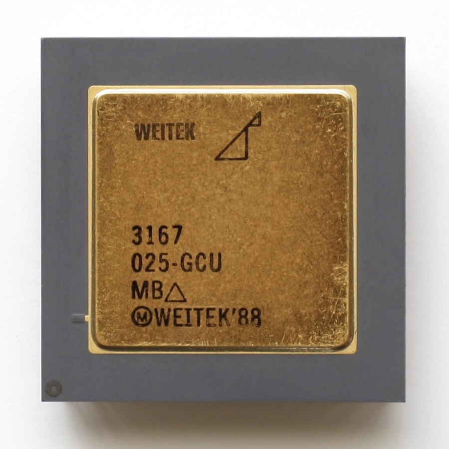 FPU Weitek WTL3167 (i387-Socket)